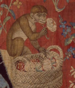 The Lady and the Unicorn (French: La Dame à la licorne) also called the Tapestry Cycle is the title of a series of six Flemish tapestries depicting the senses. They are estimated to have been woven in the late 15th century in the style of mille-fleurs